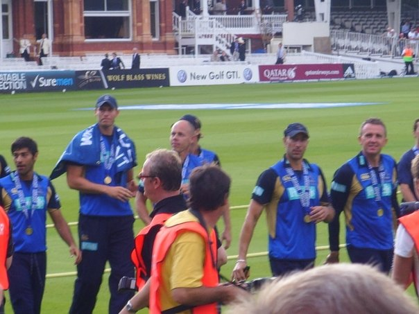 The Hampshire team celebrate victory after winning the 2009 Friends Provident Trophy. In this photo from left to right: Hamza Riazuddin, Chris Tremlett, Billy Taylor, Nic Pothas and Dominic Cork.